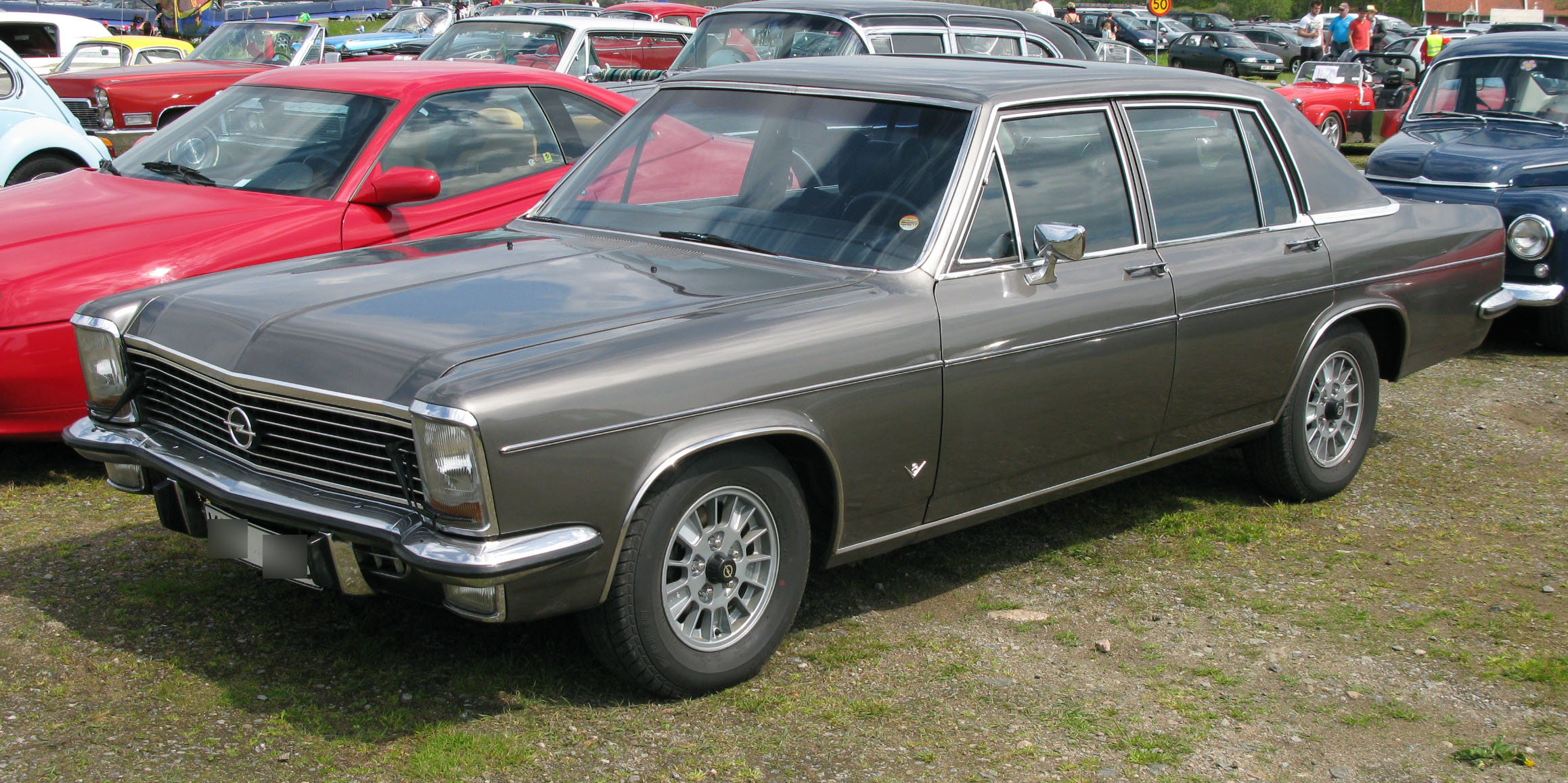 1975 Opel Diplomat. Event: Tjolöholm Classic Motor 2012.